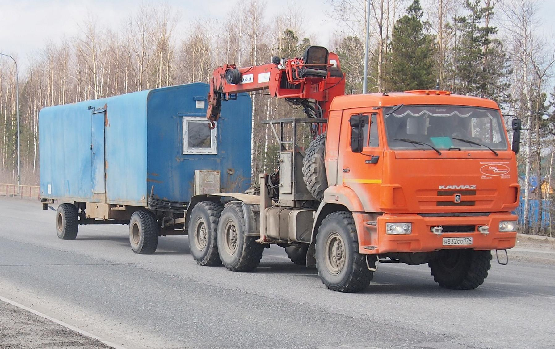 KAMAZ-44108 in Khanty-Mansiysk City